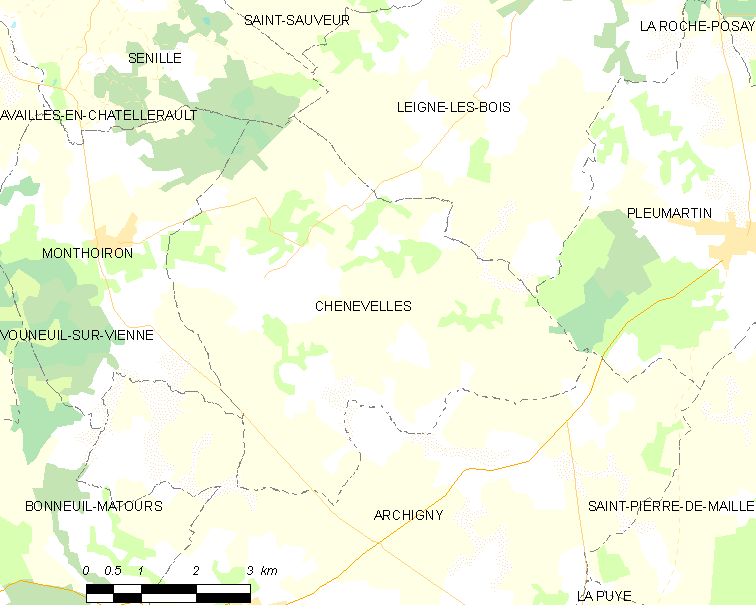 Map of French municipality Chenevelles